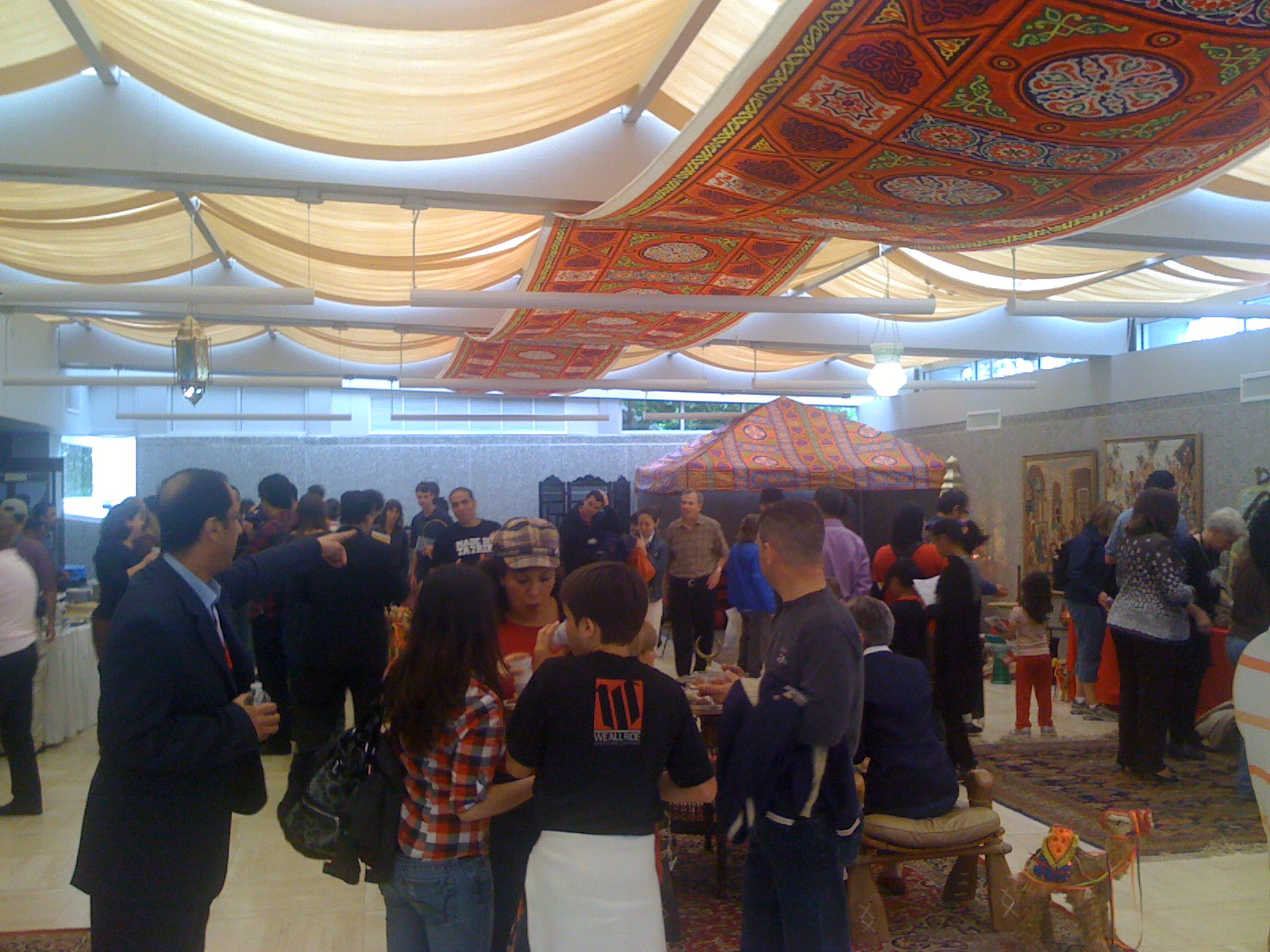 Embassy of Egypt